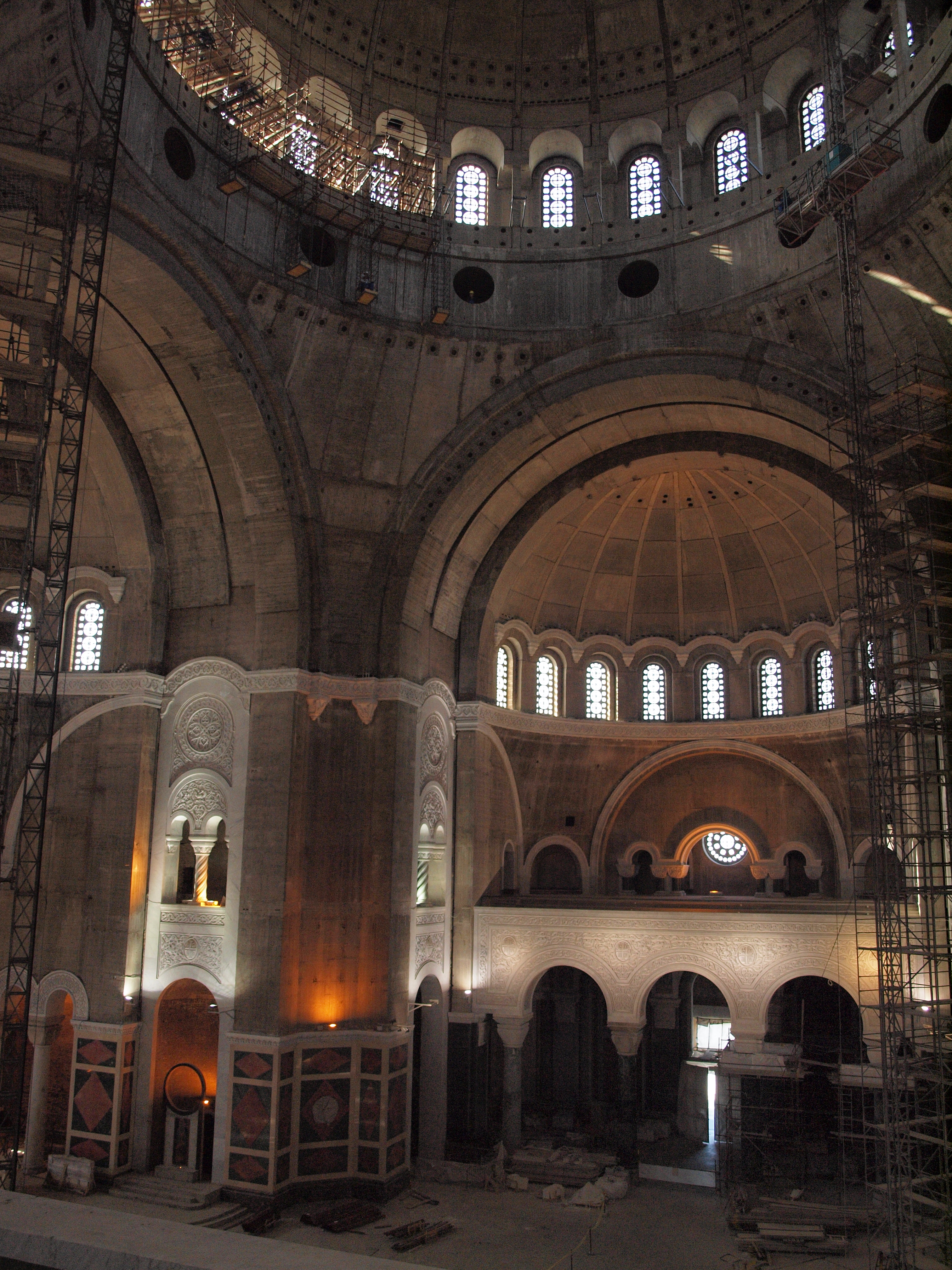 Interior perspective Saint Sava